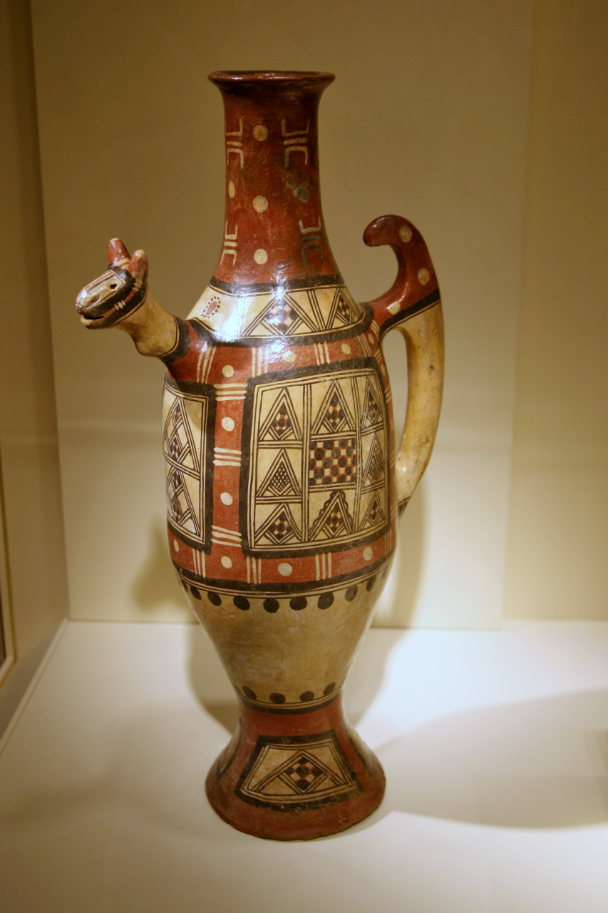 This ceramic and pigment vessel with the head of an animal (possibly a camel) from Algeria may have been made for visiting foreigners. (National Museum of African Art)